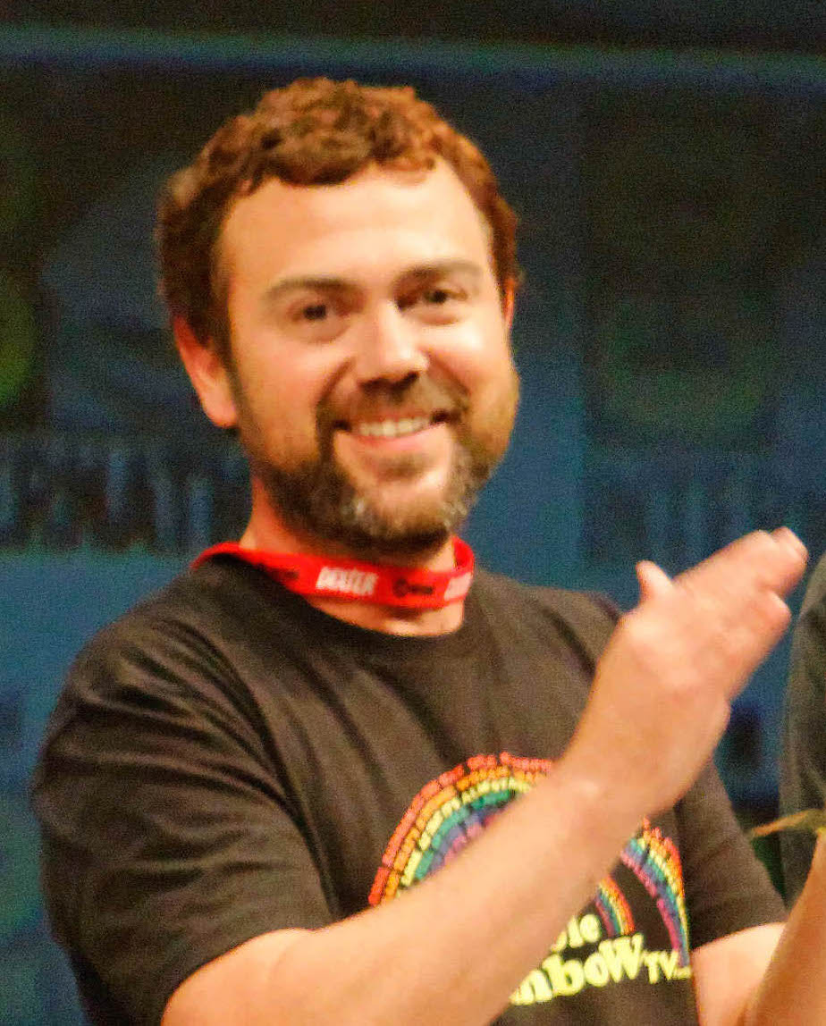 Photograph of actor Joe Lo Truglio cropped from a larger photo showing the actor next to Seth Rogen at a Q&A panel at the 2010 San Diego Comic Con.